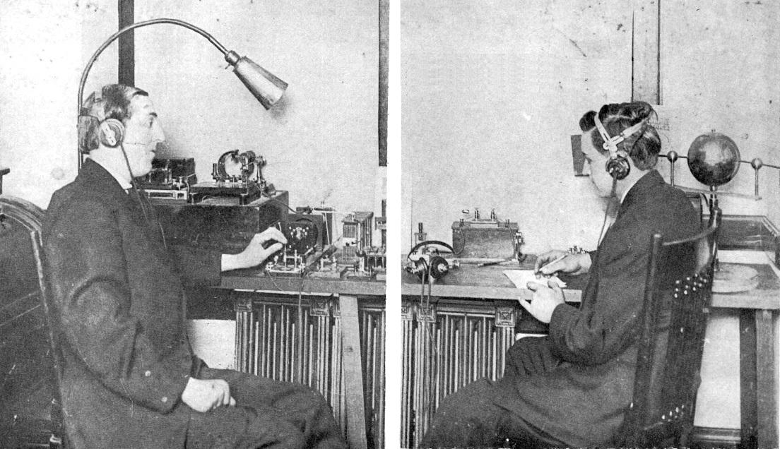 Photograph of Charles Herrold and assistant Ray Newby, circa 1910, which appears to have been taken at Herrold's " College of Wireless and Engineering" in San Jose, California